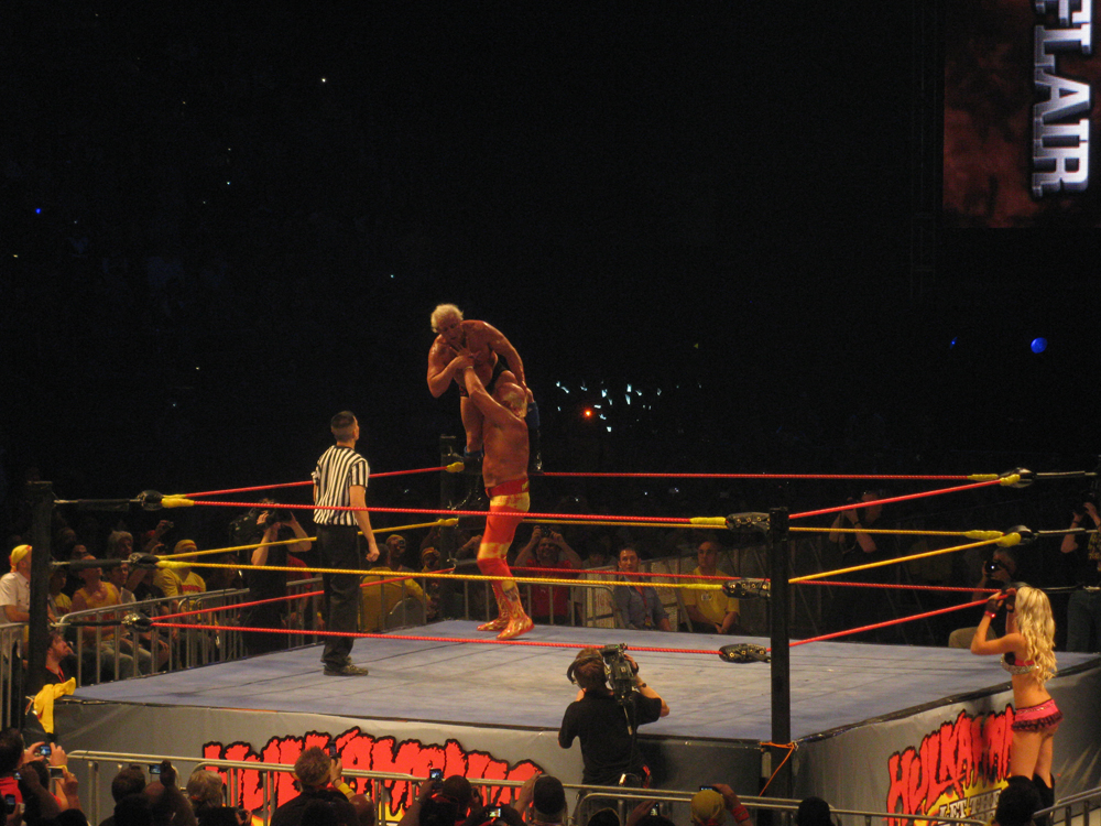 Hulkamania Tour @ Rod Laver Arena. Melbounre, AUS.